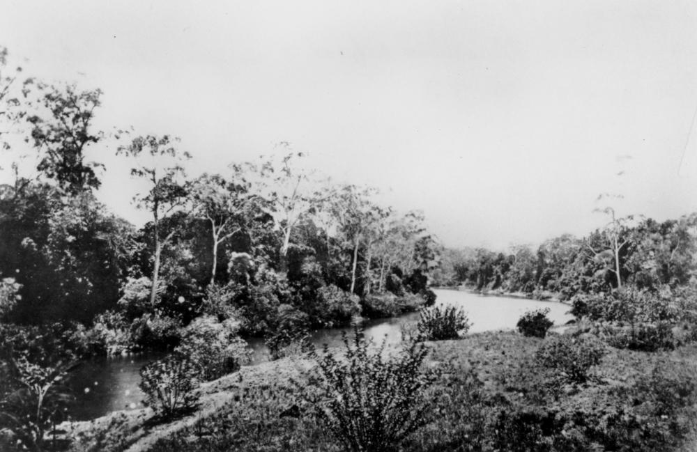 Along the Caboolture River near the Whish sugar plantation, Oaklands, 1873 Bend of the Caboolture River near Captain Whish's Plantation. (Description supplied with photograph.).